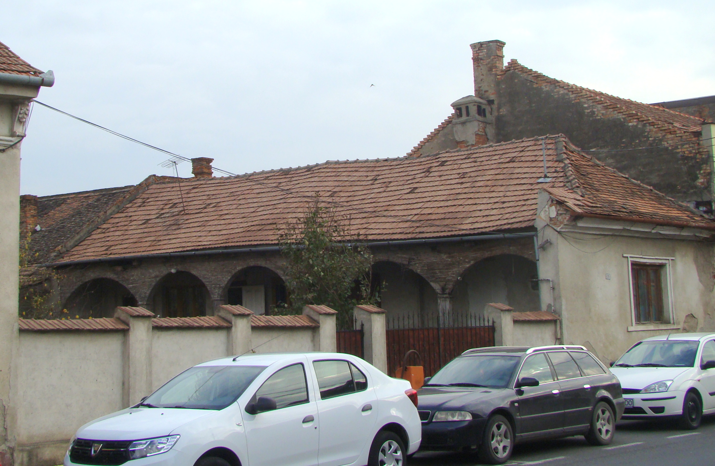 House, historic monument, Bd. Ferdinand I, number 7, Alba Iulia, Alba county, Romania